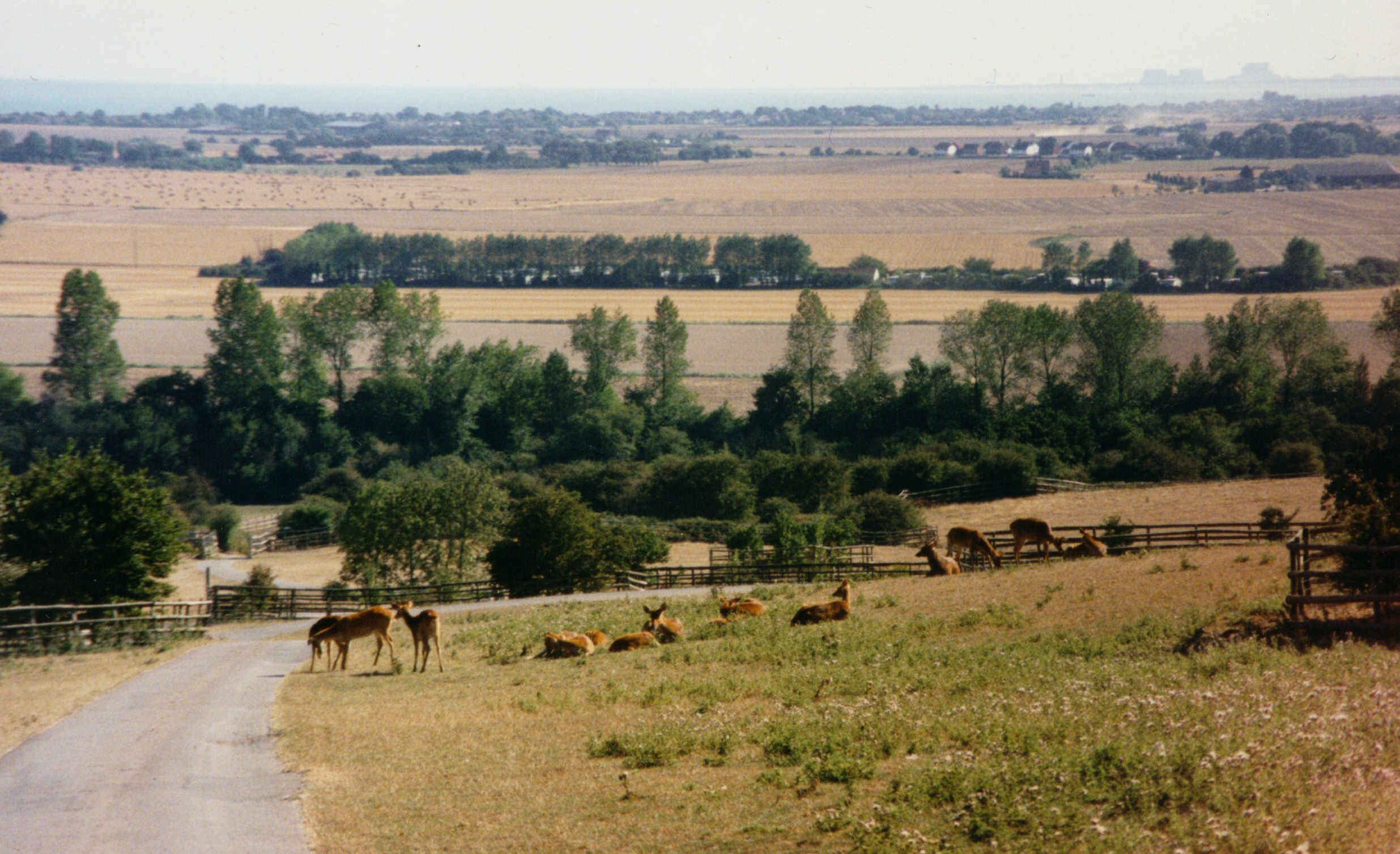 View of animal enclosure and surrounding farmland, Port Lympne animal Park,Ashford, Kent, UK.